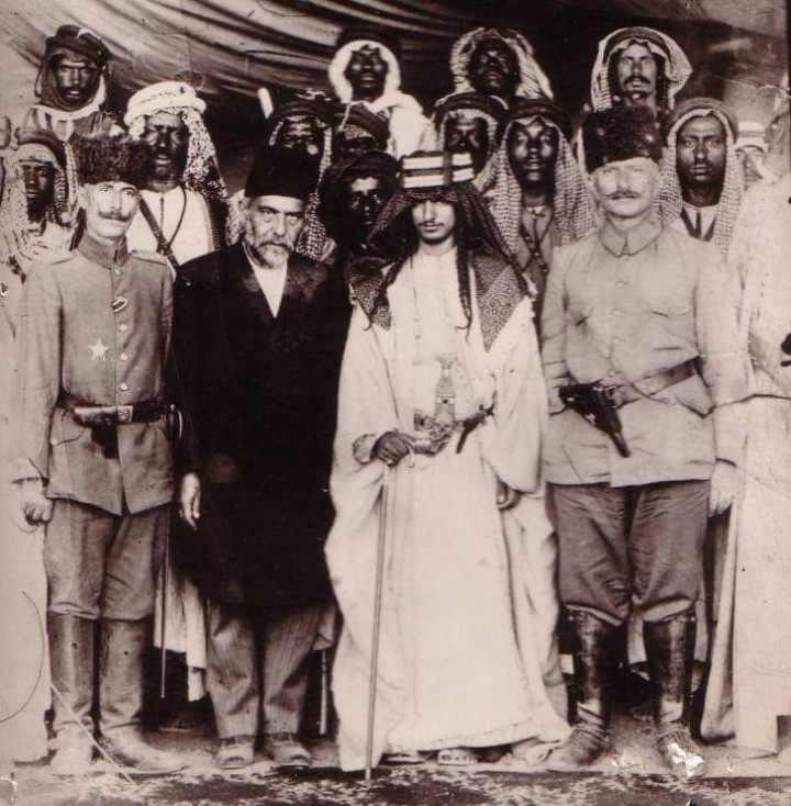 Saud bin Abdulaziz al Rashid, emir of Jabal Shammar from 1908 - 1920 with Ottoman governor and general, Fakhri Pasha.